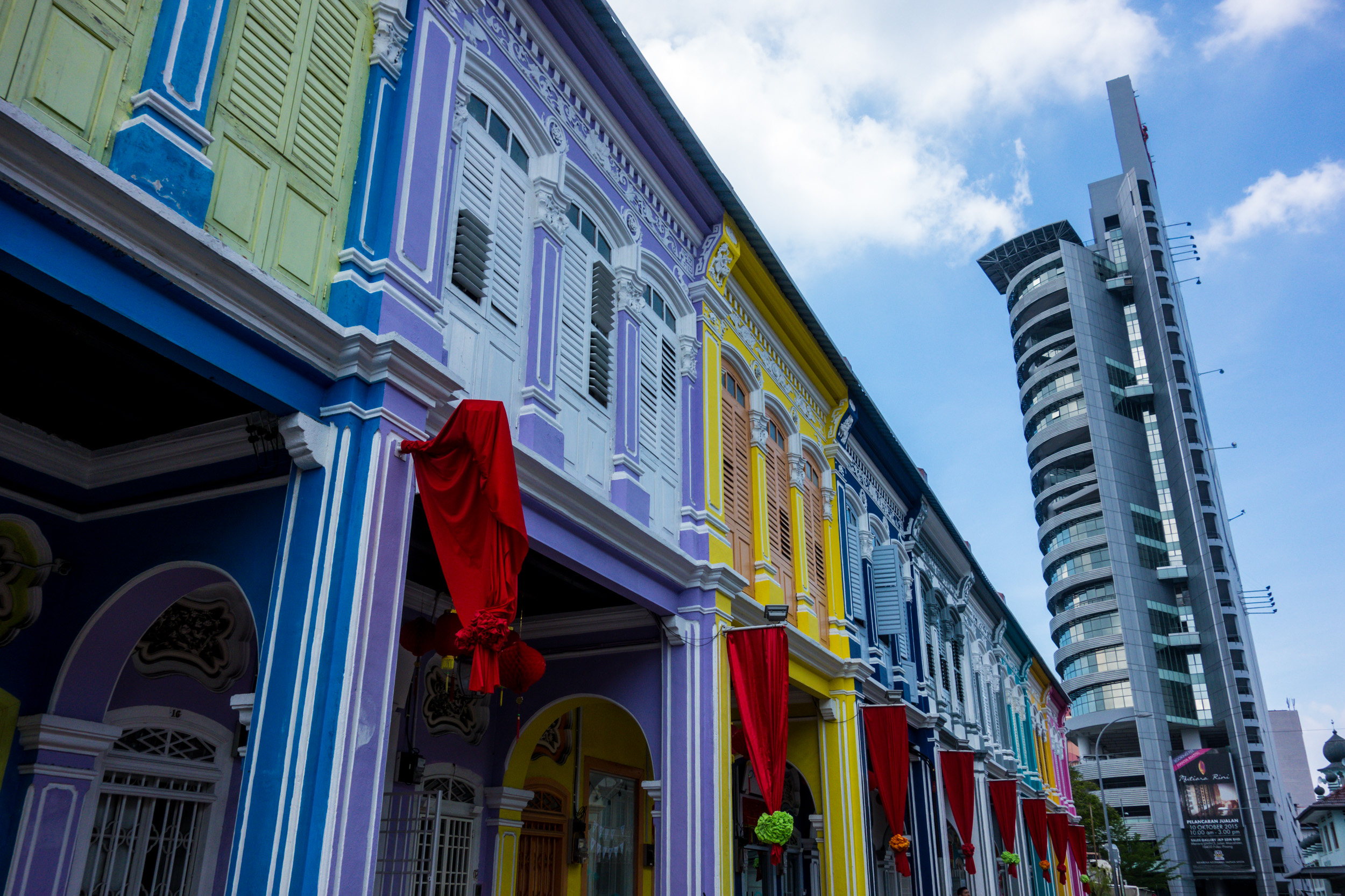 Penang - Part 4 - Relics